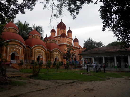 Shyamnagar Kalibari